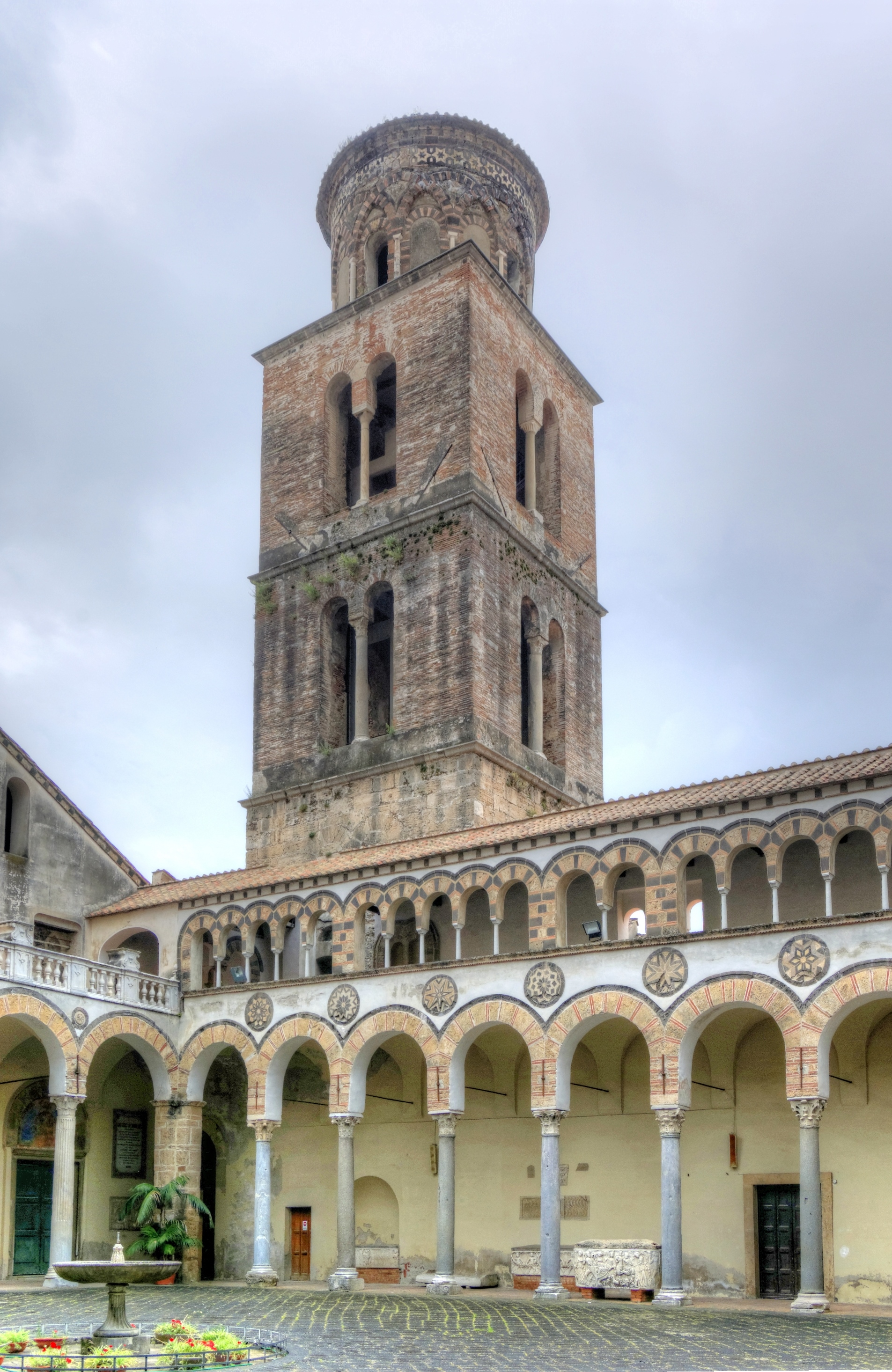 Salerno, San Matteo, Cloister